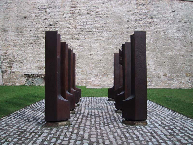 Monument for the Unknown Deserters of the German Wehrmacht memorial for the victims of the German military justice in Second World War – To all who resisted the Nazi regime established 1995 citadel Petersberg Erfurt/Germany artist Thomas Nicolai / AAA.